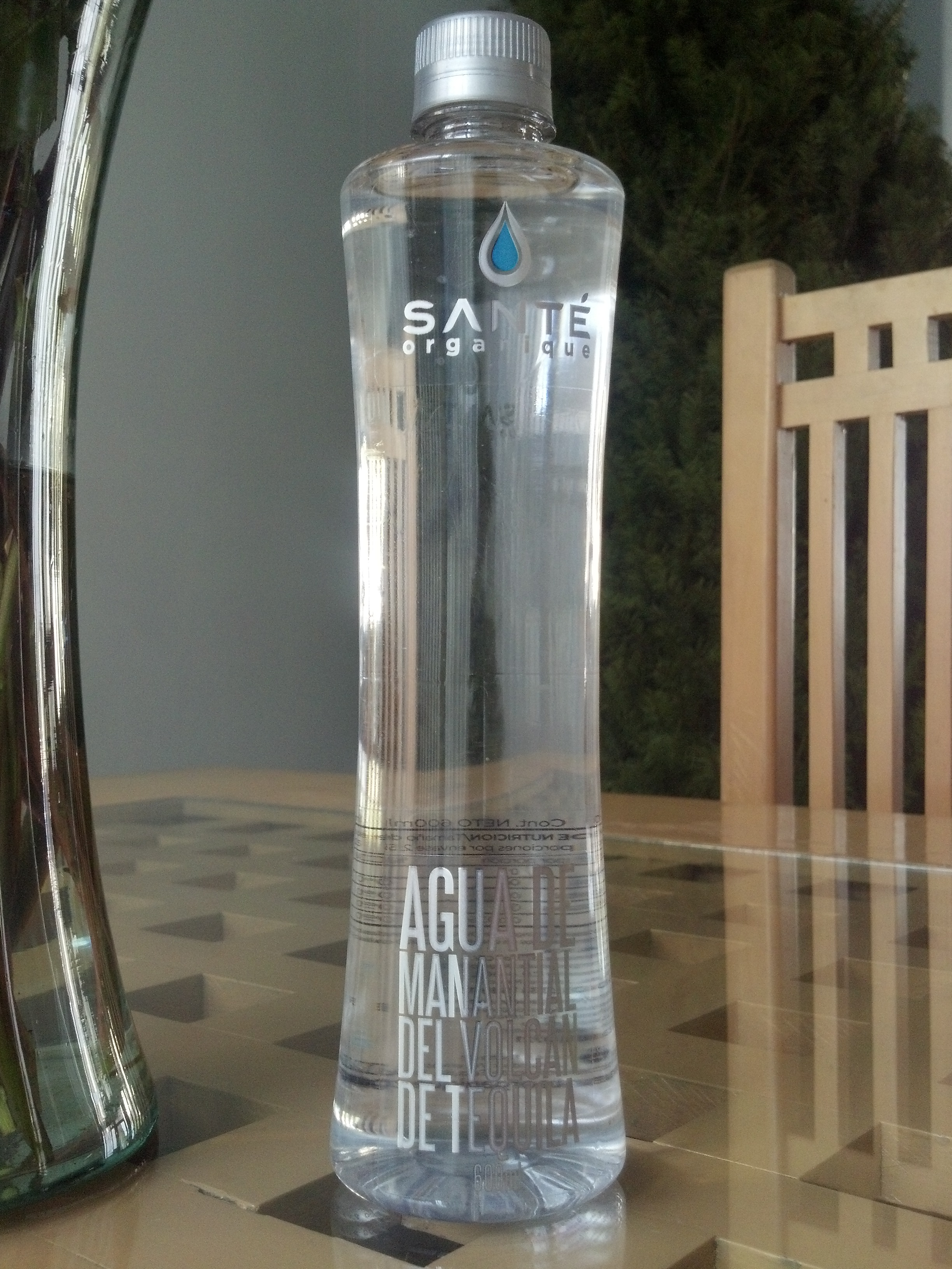 SANTÉ organique Water Bottle 600 ml